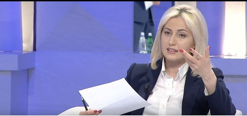 studion e Opinion Tv Klan